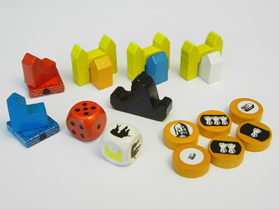 some tiles for parlor game Settlers of Catan.